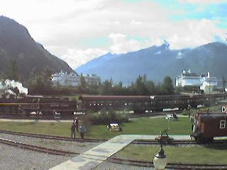 Skaway, Alaska station on the White Pass and Yukon Route